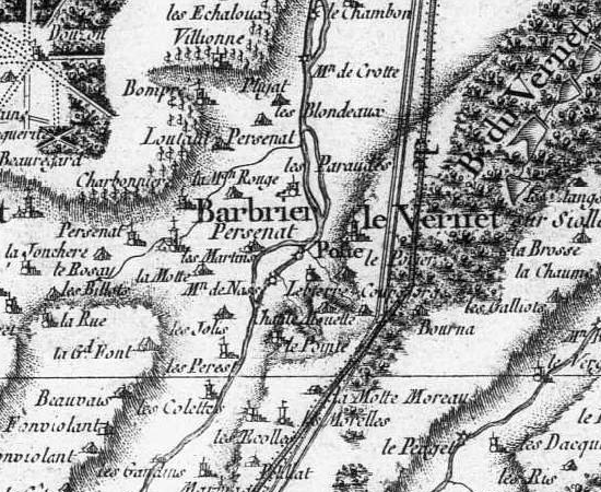 Barberier on the map of Cassini